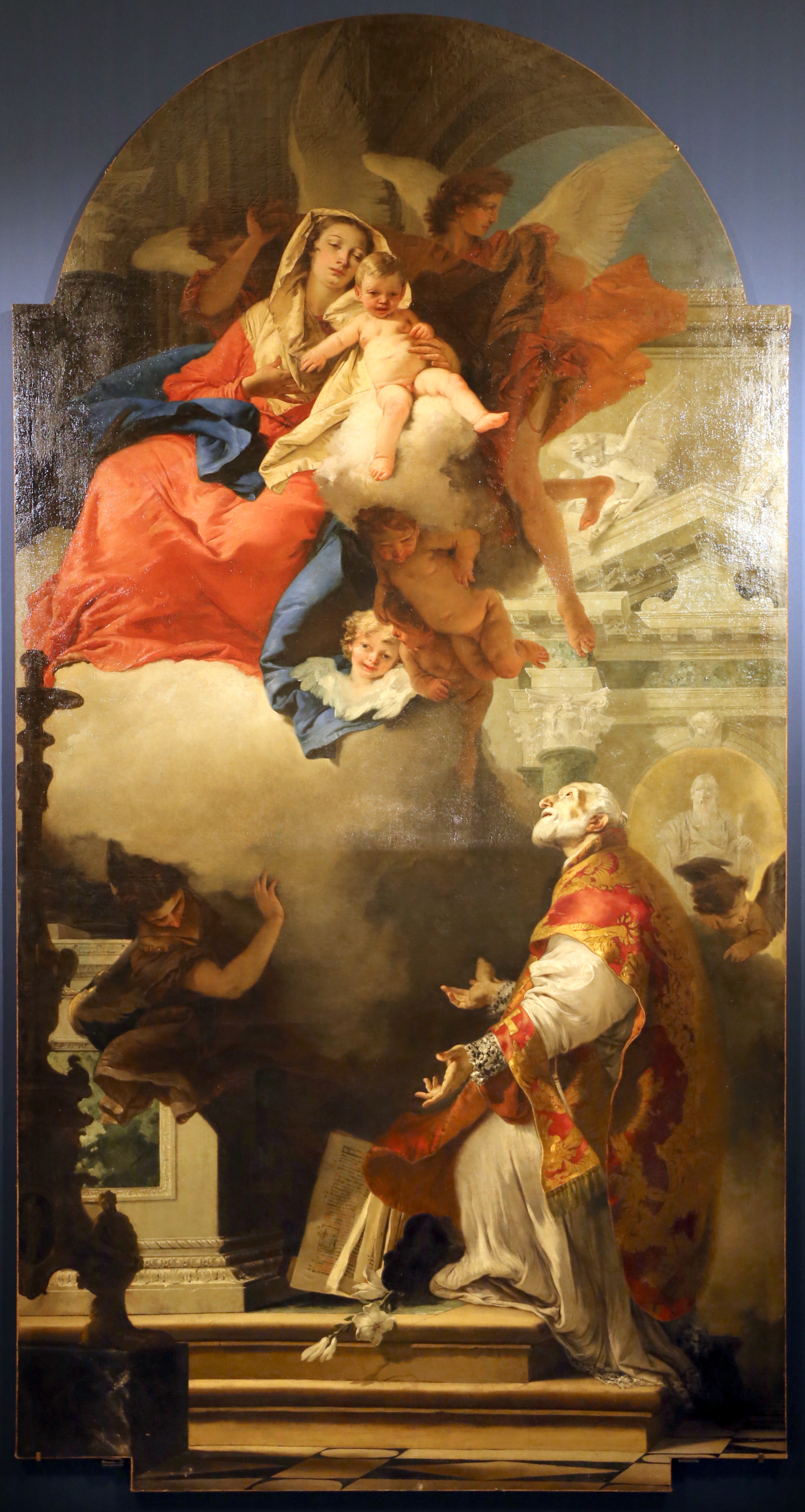 Facciamo presto! (2016-2017 exhibition)